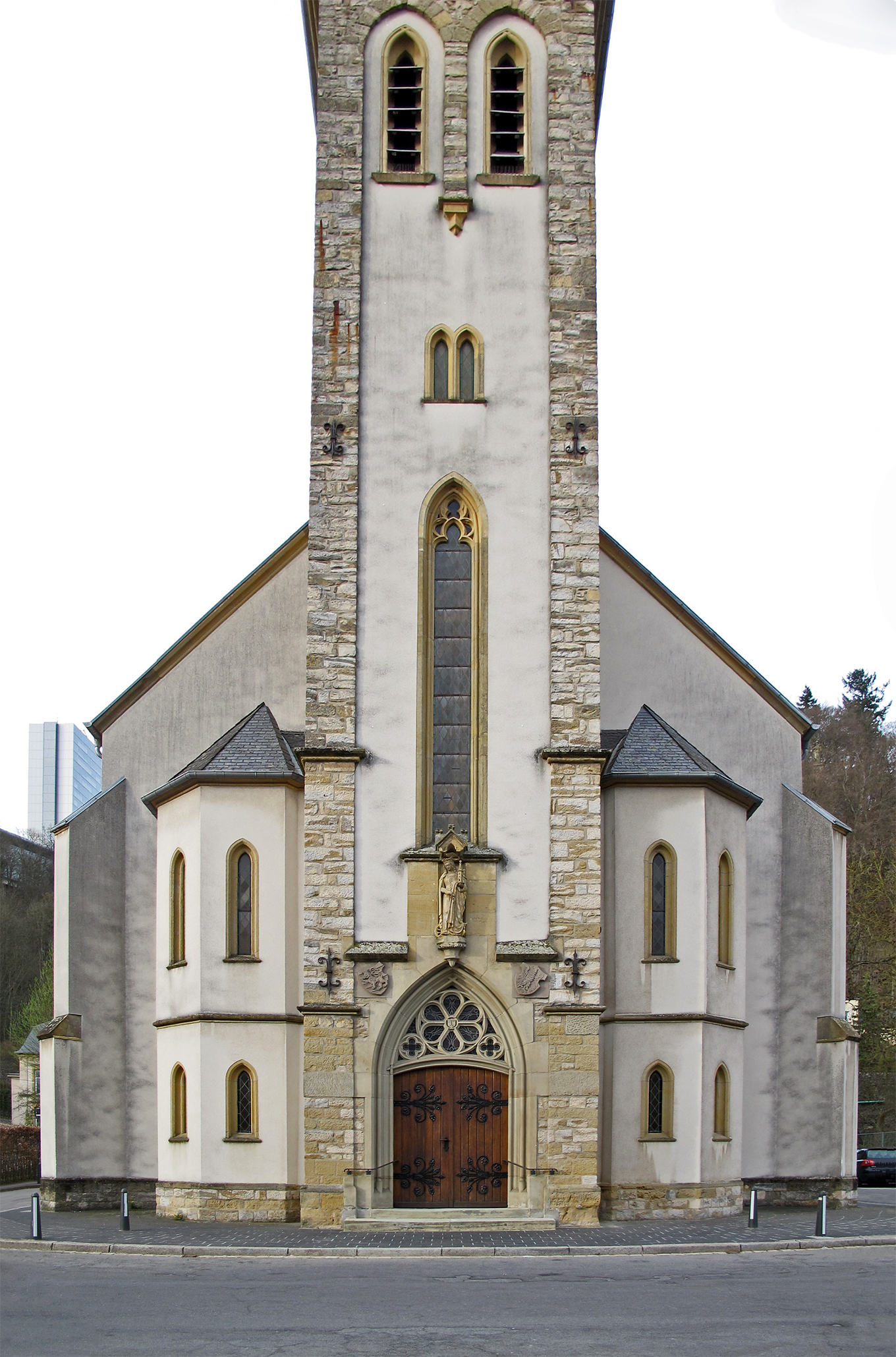 Church of Clausen, Luxembourg-City